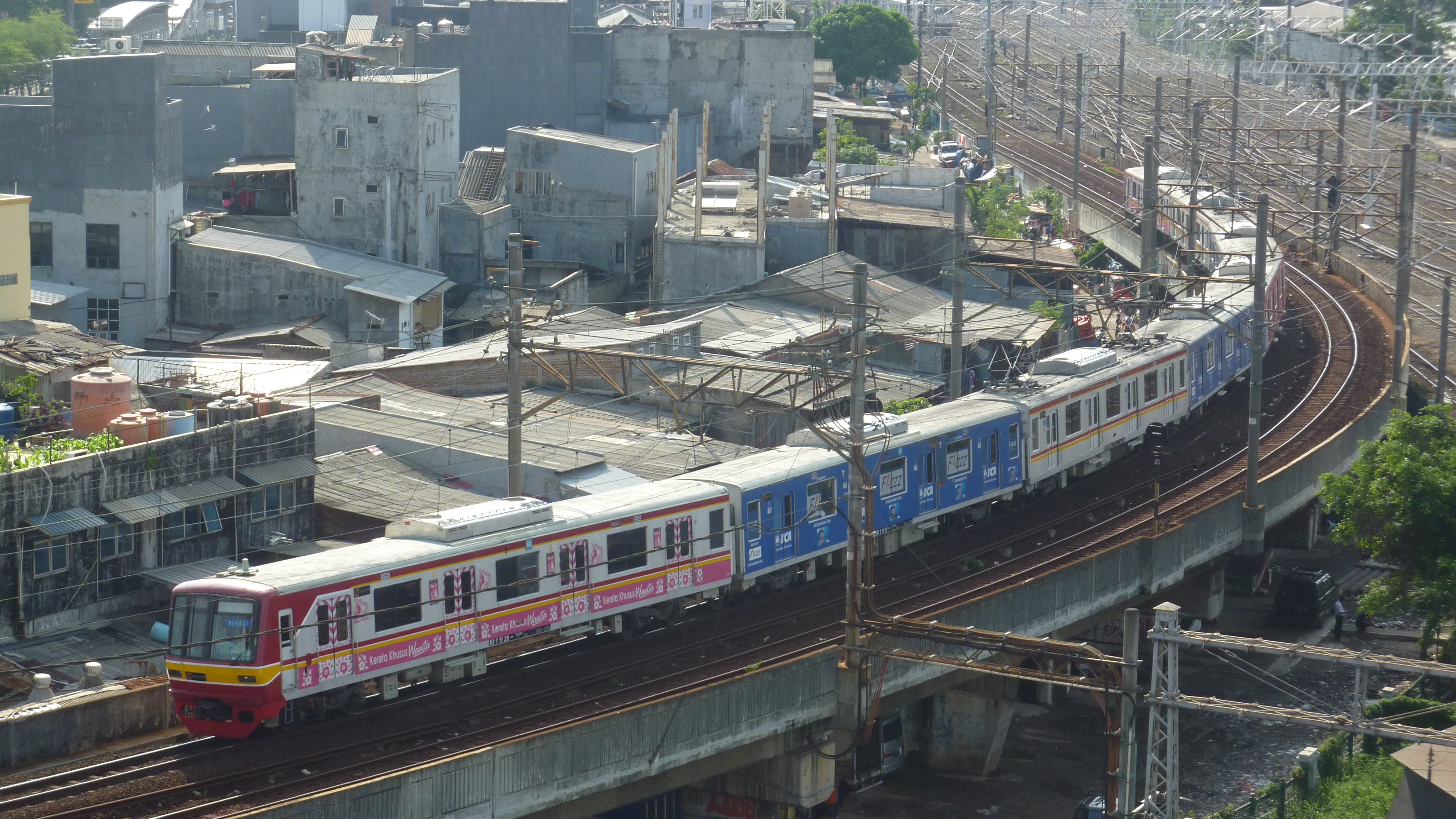 Former Tokyo Metro Tozai Line 05 series EMU set 05-108 on an afternoon service for Bekasi in Indonesia